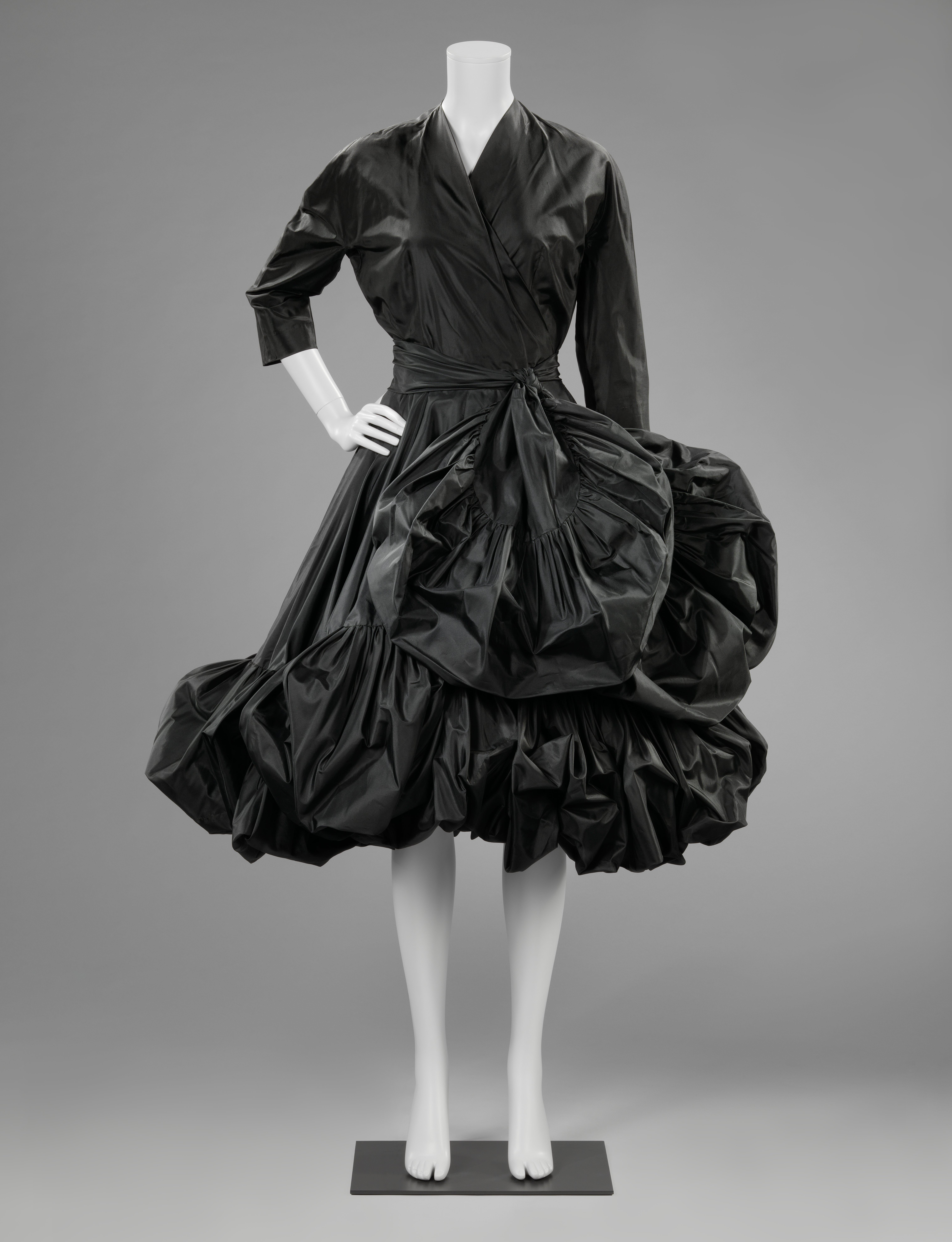 Cocktail gown of black taffeta, 1951. Probably designed by Cristóbal Balenciaga. This model reproduced by Maison C. Kruys Veldt Mare, Netherlands, 1951.